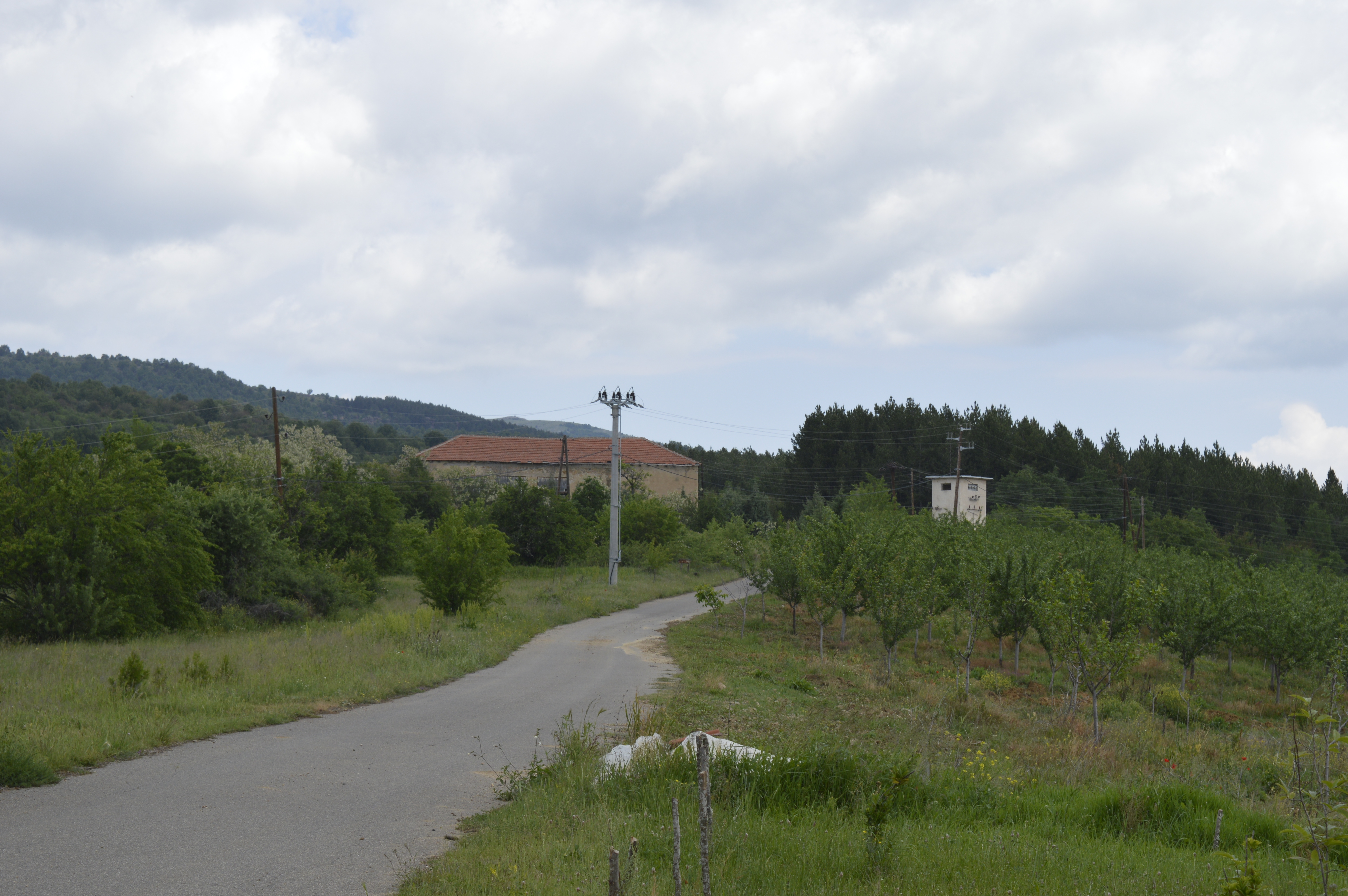 View of the village Kiselica, Delčevo